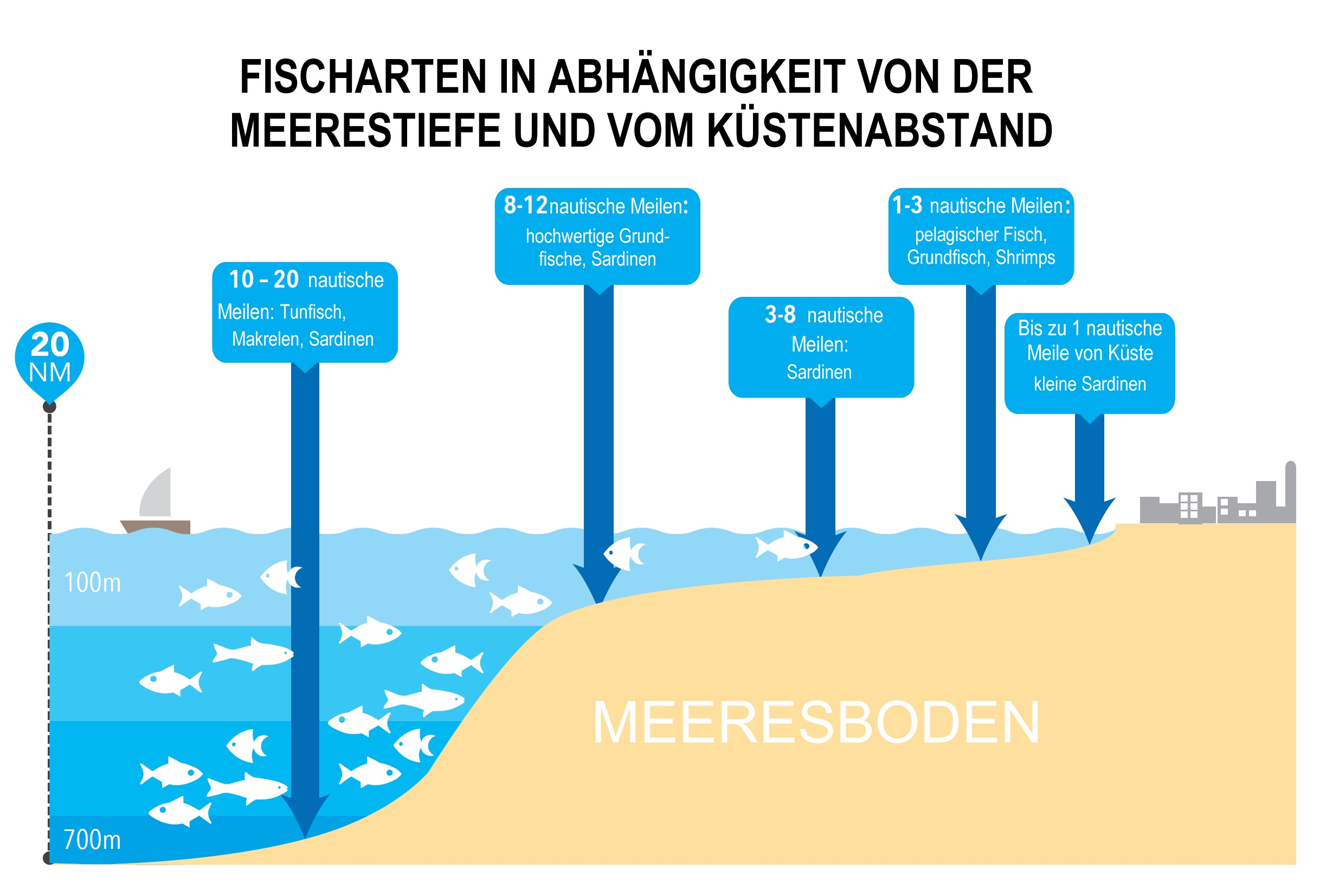 Types of fish depending on distance from coast